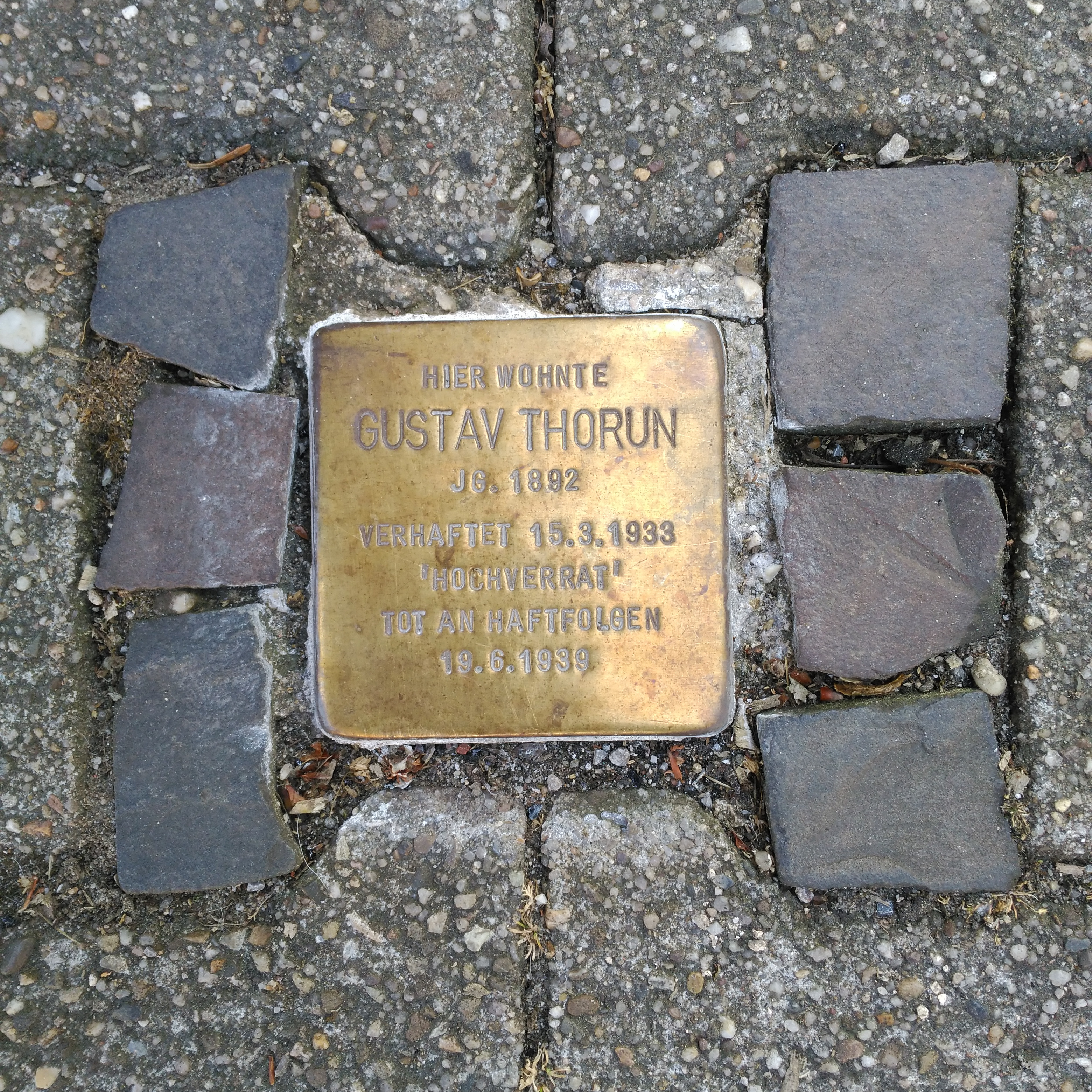 Stumbling stone for Gustav Thorun